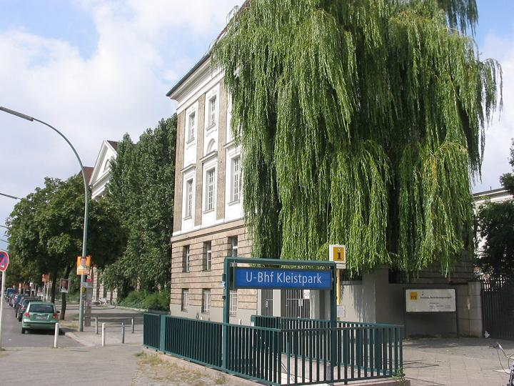 Metro station Kleistpark nearby the Heinrich-von-Kleist-Park in Berlin-Schöneberg. Mediahouse of the Berlin University of the Arts.